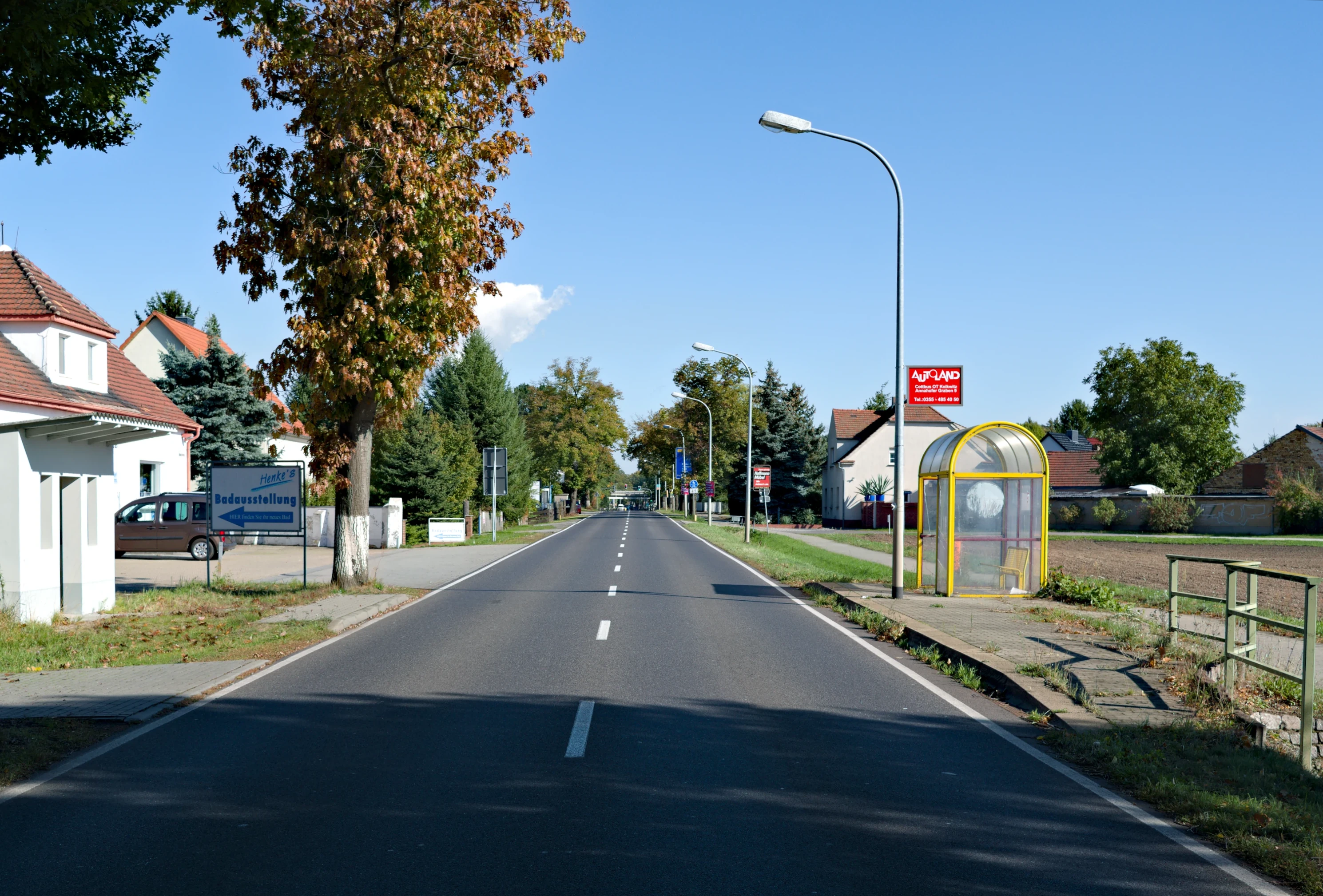 Drebkauer Straße (Bundesstraße 169) in Klein Gaglow. The bus stop is out of service; regional buses pass through Groß Gaglow and Sachsendorf on their way to central Cottbus instead.